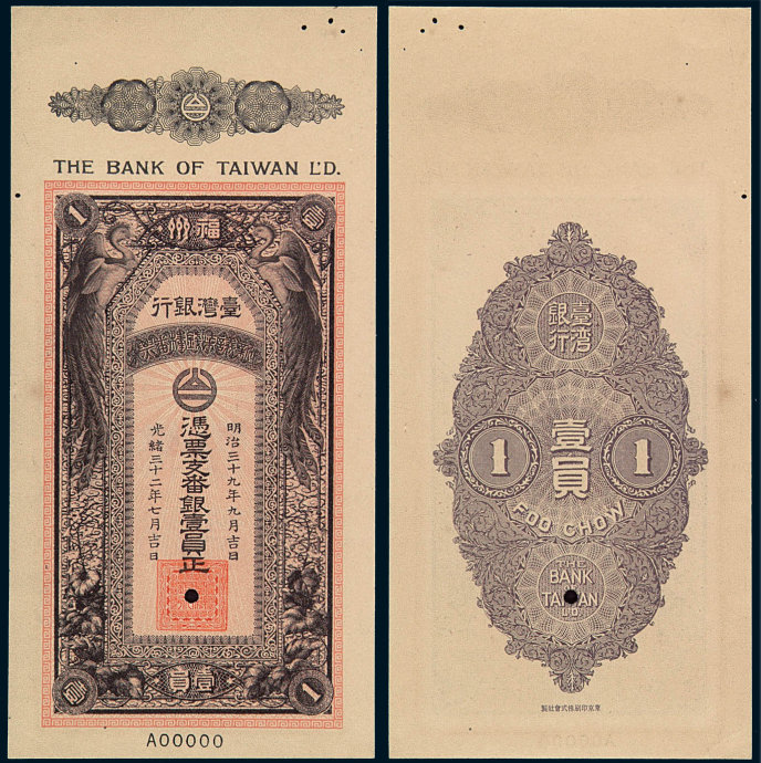 A banknote issued by the Bank of Taiwan for circulation on the Chinese Mainland during the reign of the Manchu Qing Dynasty.